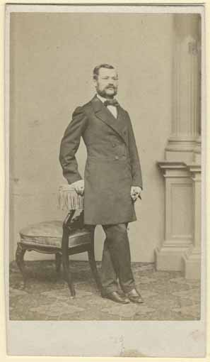 The german botanist Ludwig Radlkofer (1829-1927)